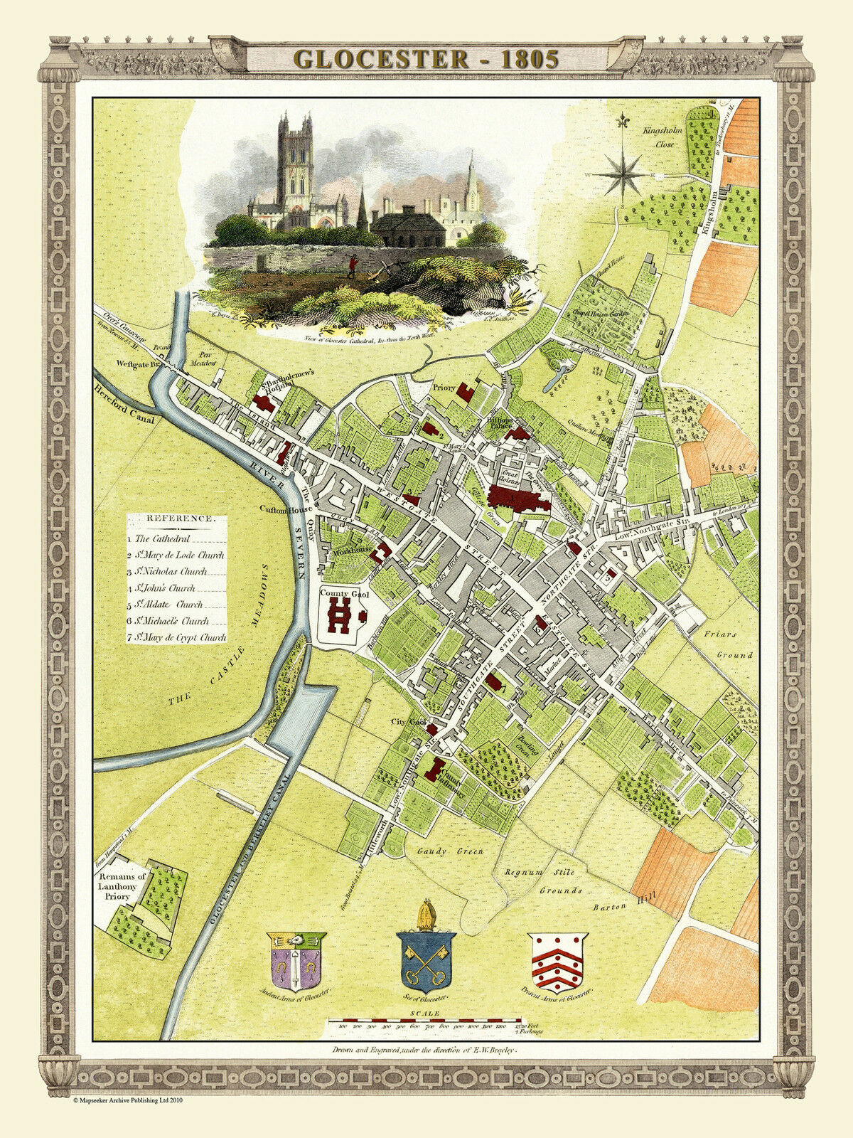 Map of Glocester (Gloucester) drawn and engraved under the direction of Edward Wedlake Brayley